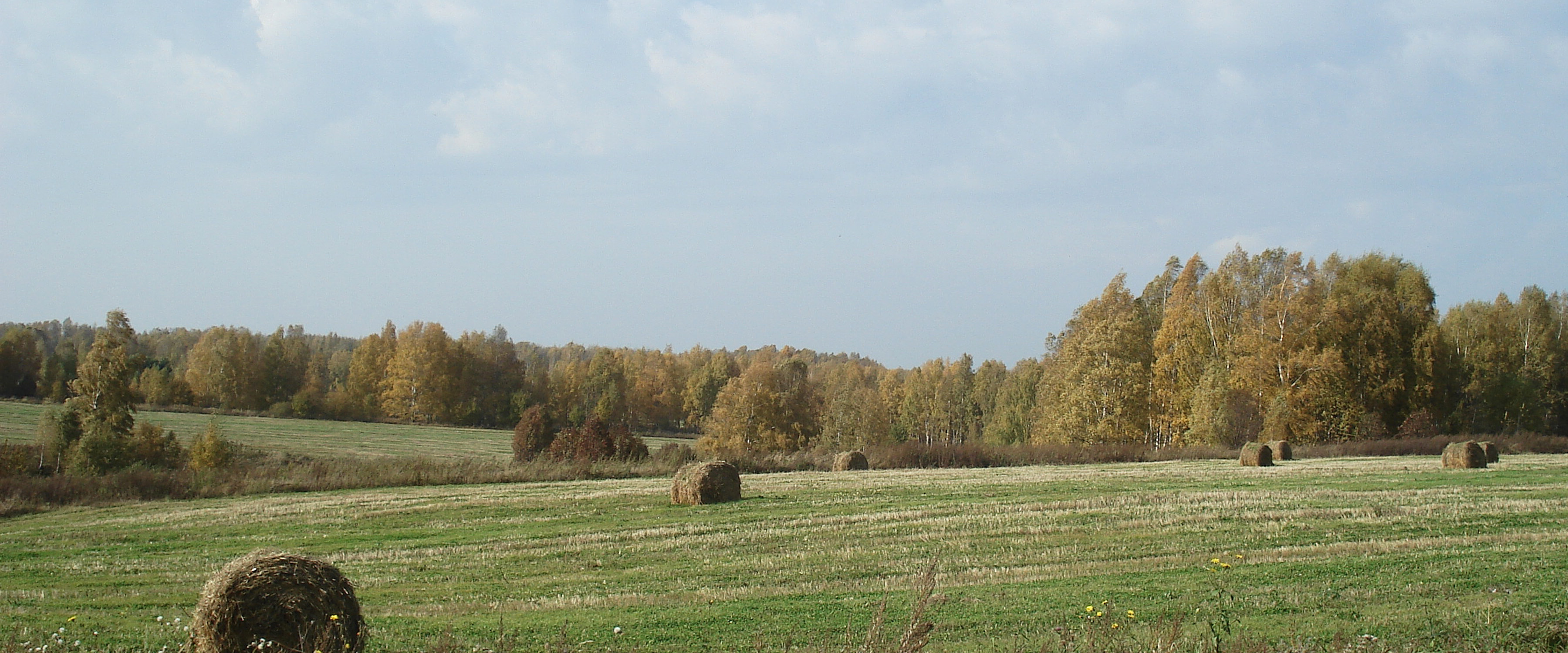 View on the fields of the Selsovet of Chulkovo. Nizhegorodskaya oblast. Russia.